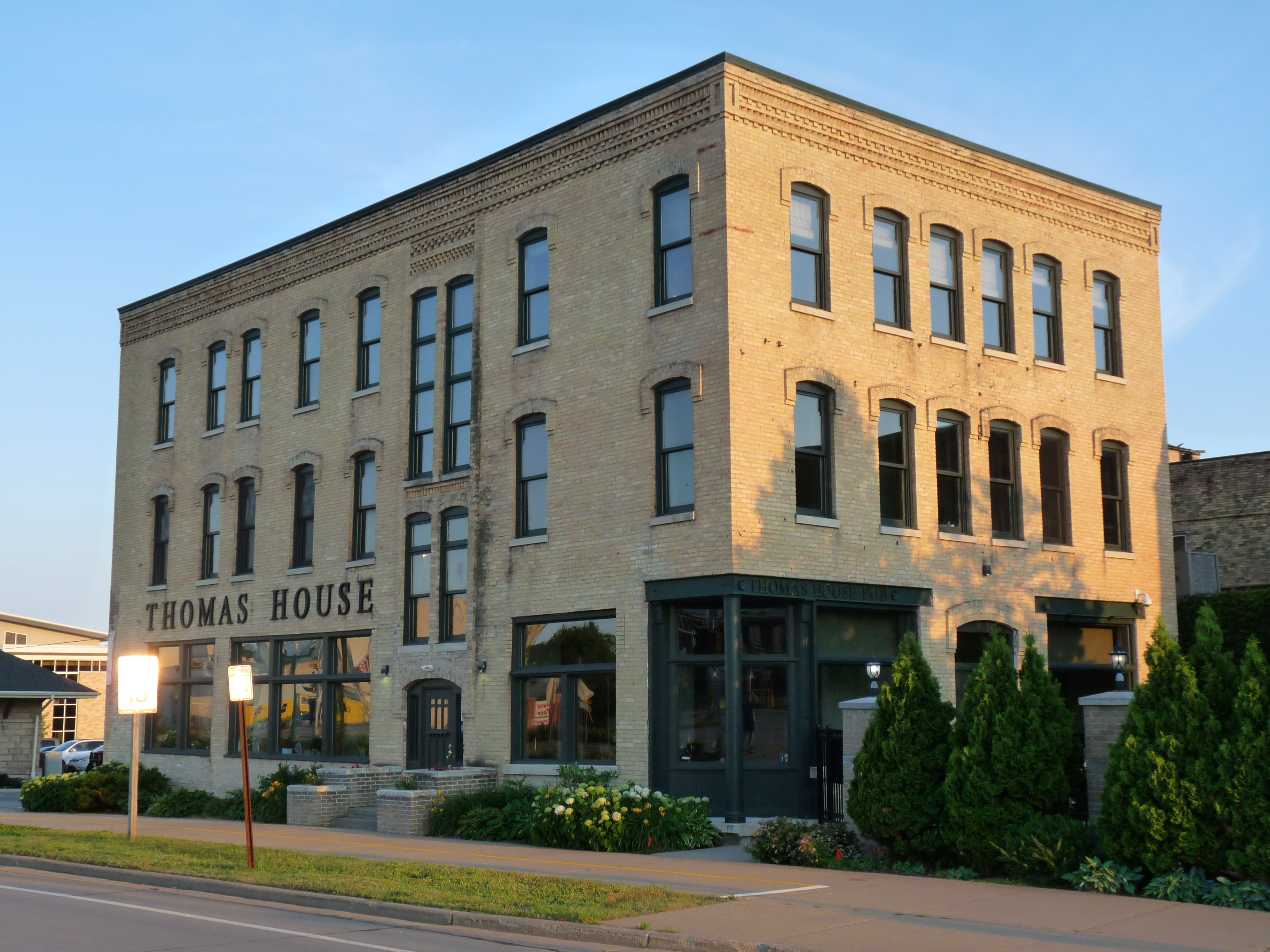 The Thomas House Hotel in Marshfield, Wisconsin, was built in 1887, after the fire destroyed the whole downtown, on the prominent corner where Central Avenue crossed the railroad. It still stands, contributing to Marshfield's Central Avenue Historic District.